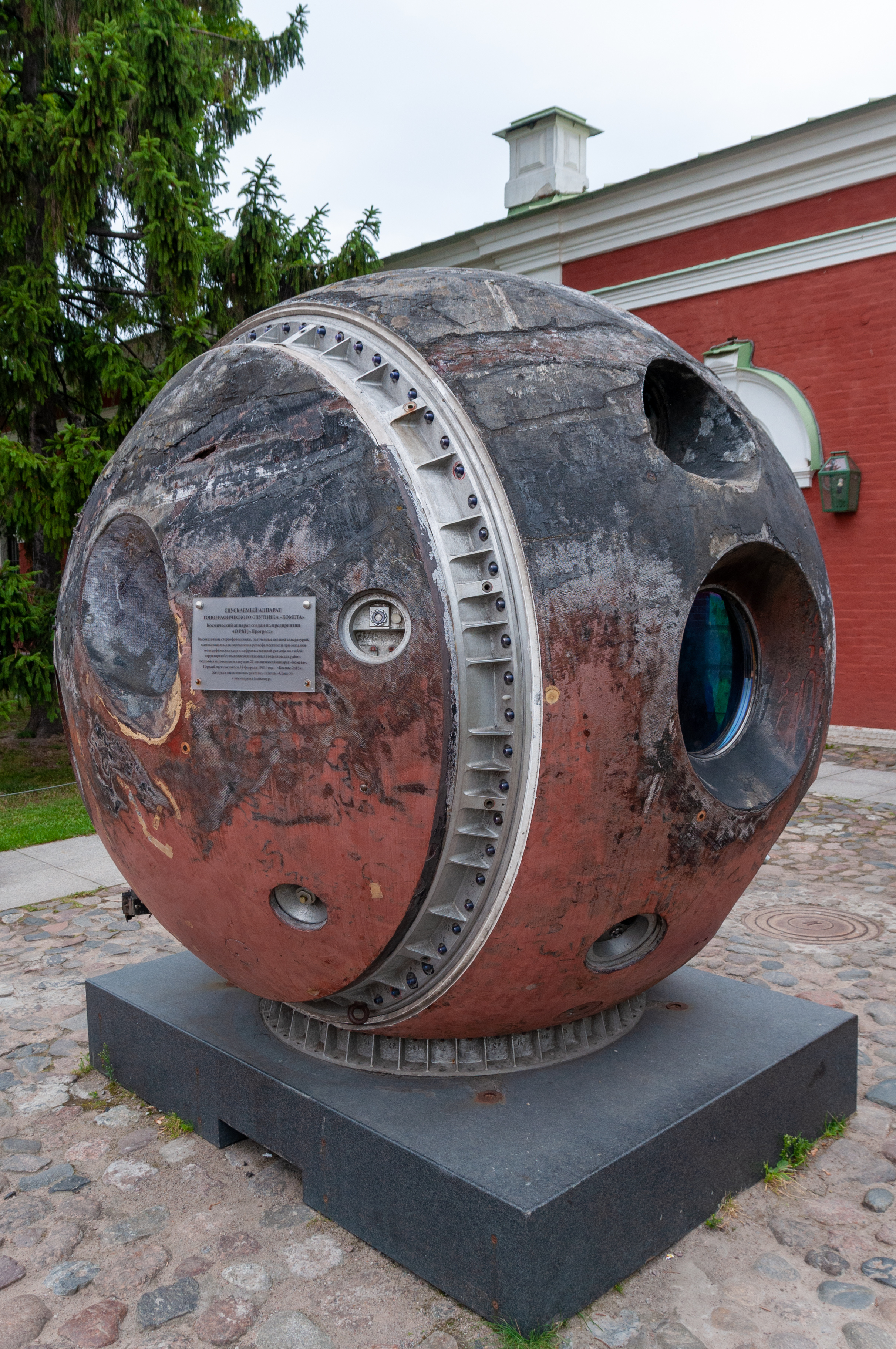 Yantar-1KFT exposed at Museum of Space and Missile Technology (Saint Petersburg)